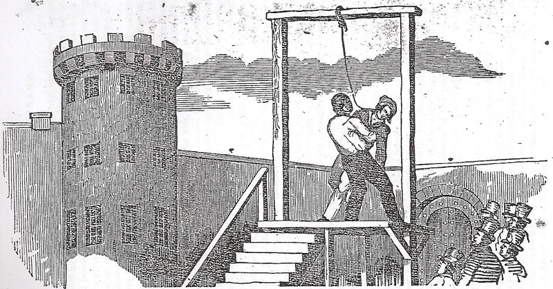 Jereboam O. Beauchamp being hung for the murder of Solomon P. Sharp